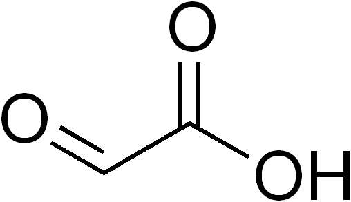 chemical structure of Glyoxylic acid